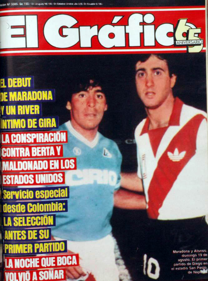 Diego Maradona and Norberto Alonso, pictured in Naples where River Plate played a friendly v SSC Napoli.